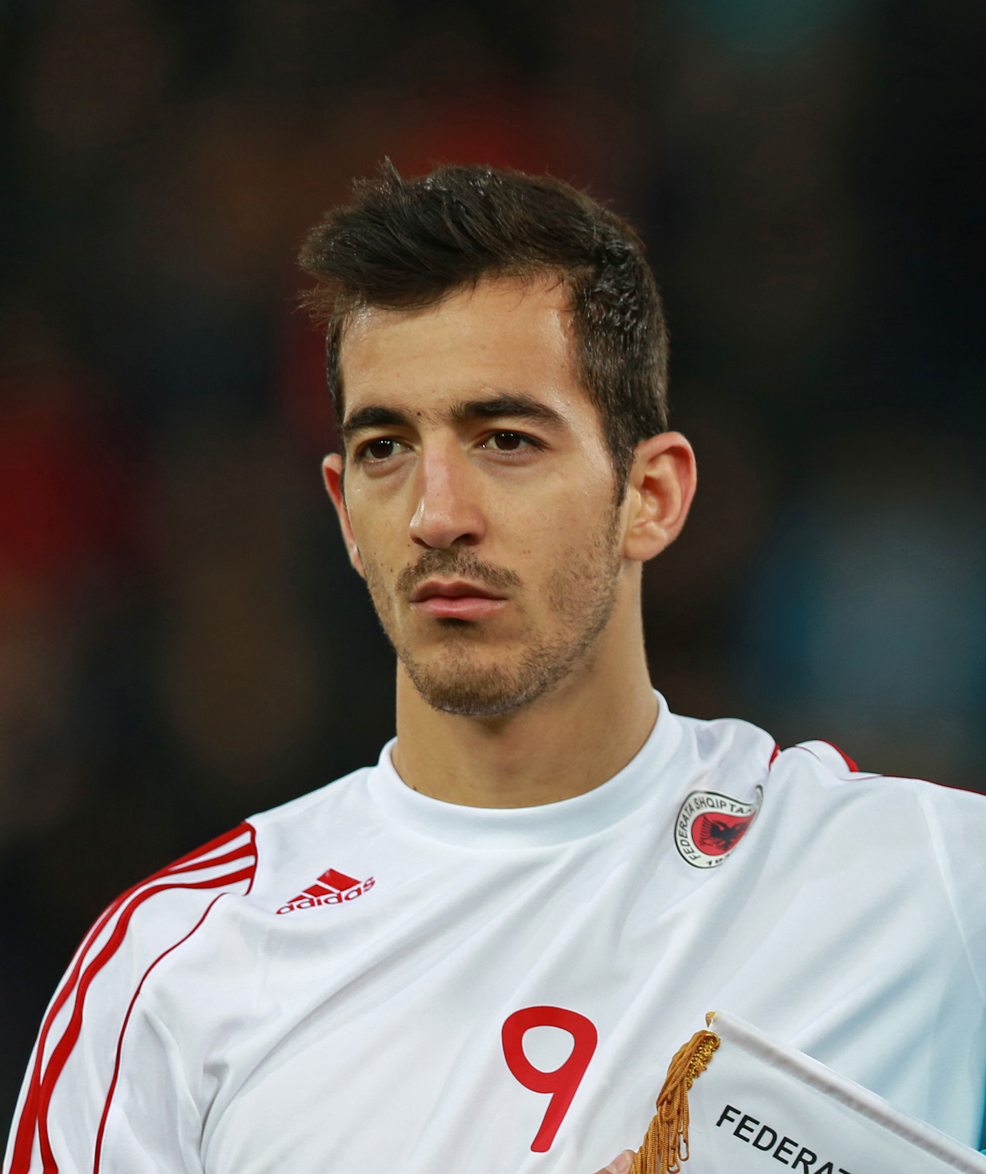 Vasil Shkurtaj at national under-21 football game Albania vs. Austria in Graz, UPC Arena, 5. March 2014